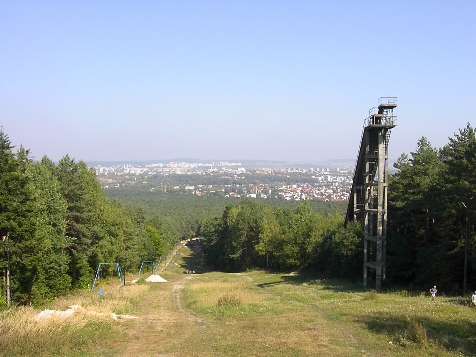 Panorama of Kielce, Poland, 2003 yr. Aparat/Camera: Premier DC-2350